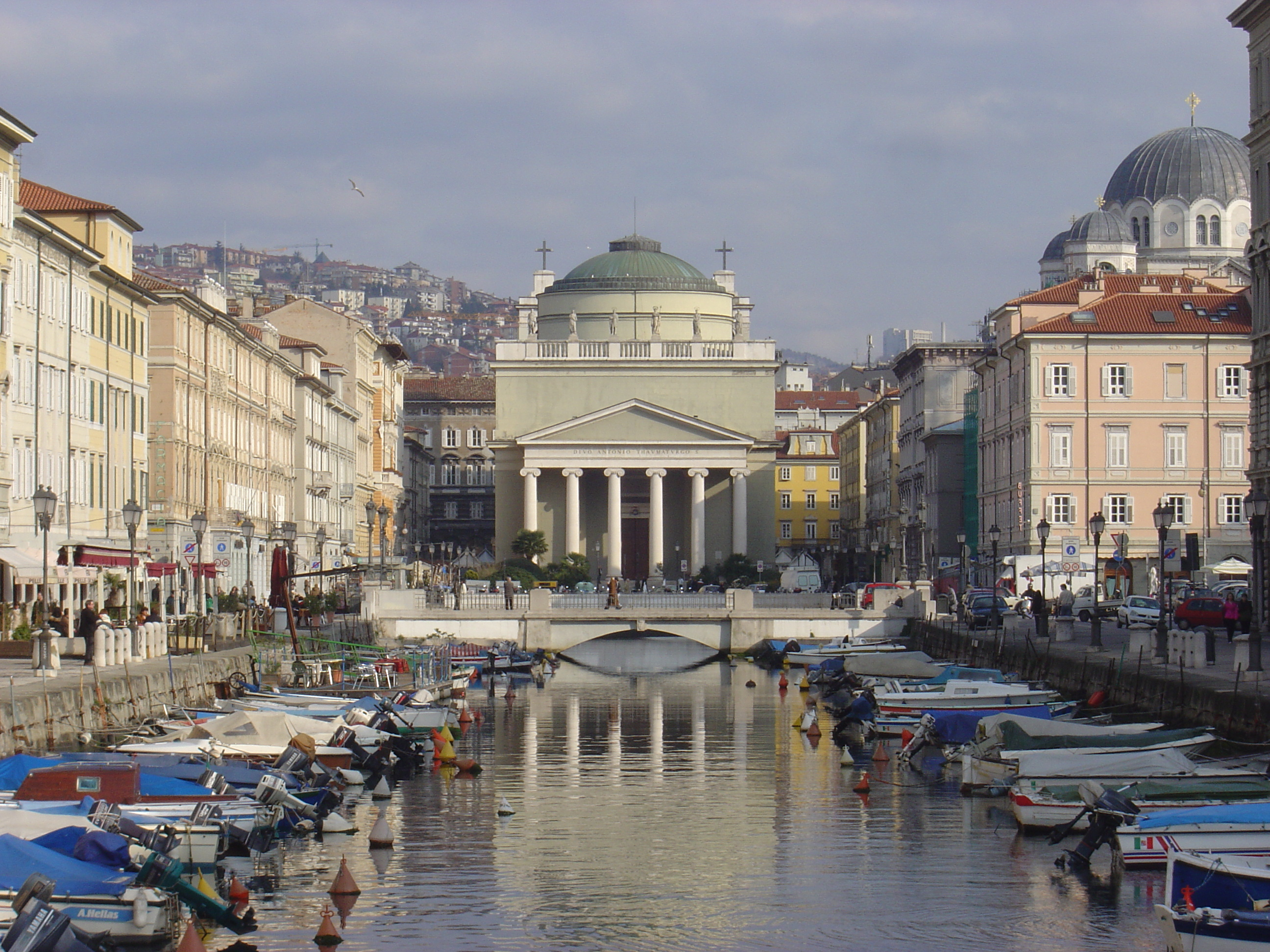 Trieste, Italy